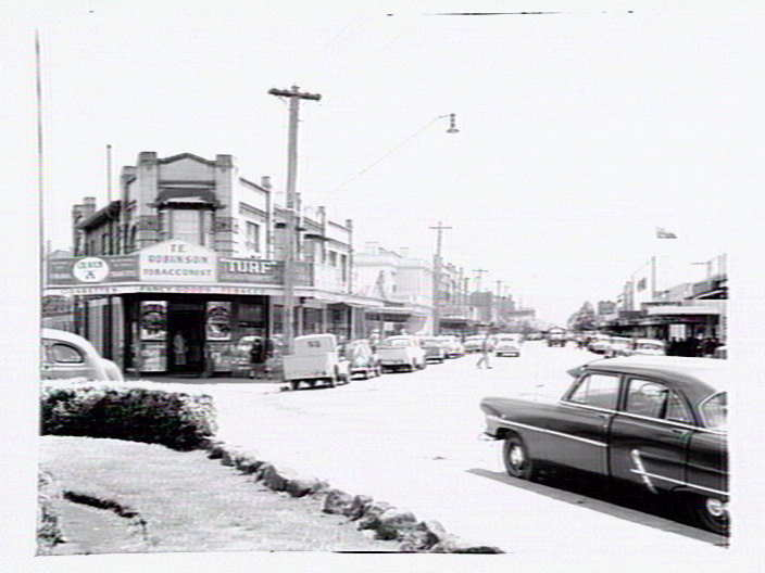 Summary Fairview Avenue, Newtown, Geelong